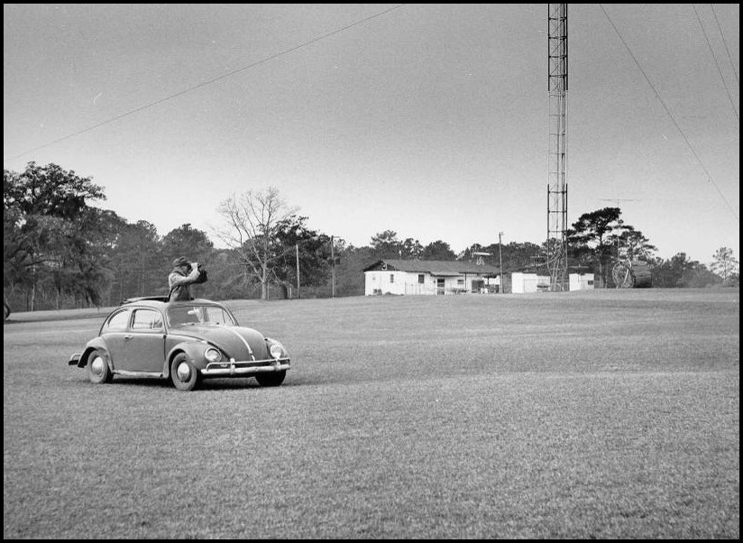 Herbert Stoddard scans for bird carcasses during his tower study.